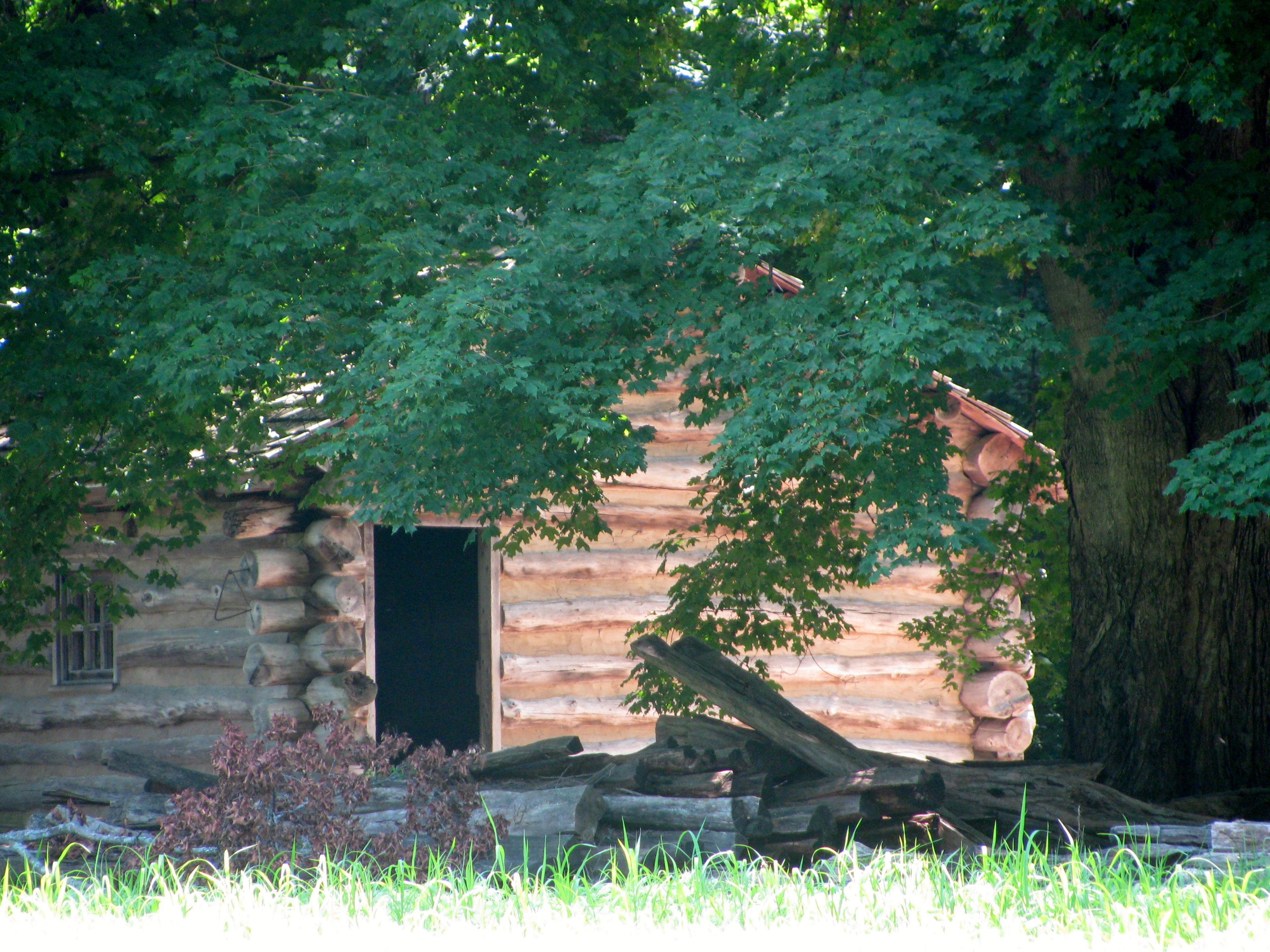 Children who lived in New Salem attended this one room school sitting on plank benches and reciting their lessons.